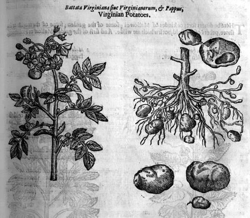 John Gerard (1545-1612): The Herball or Generall Historie of Plantes. London, 1633.